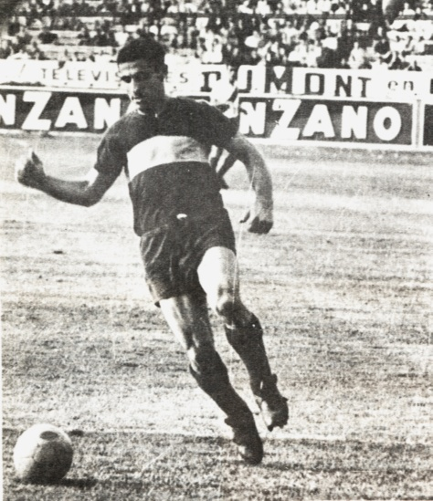 Carmelo Simeone during his time at Boca Juniors (1961-1967)